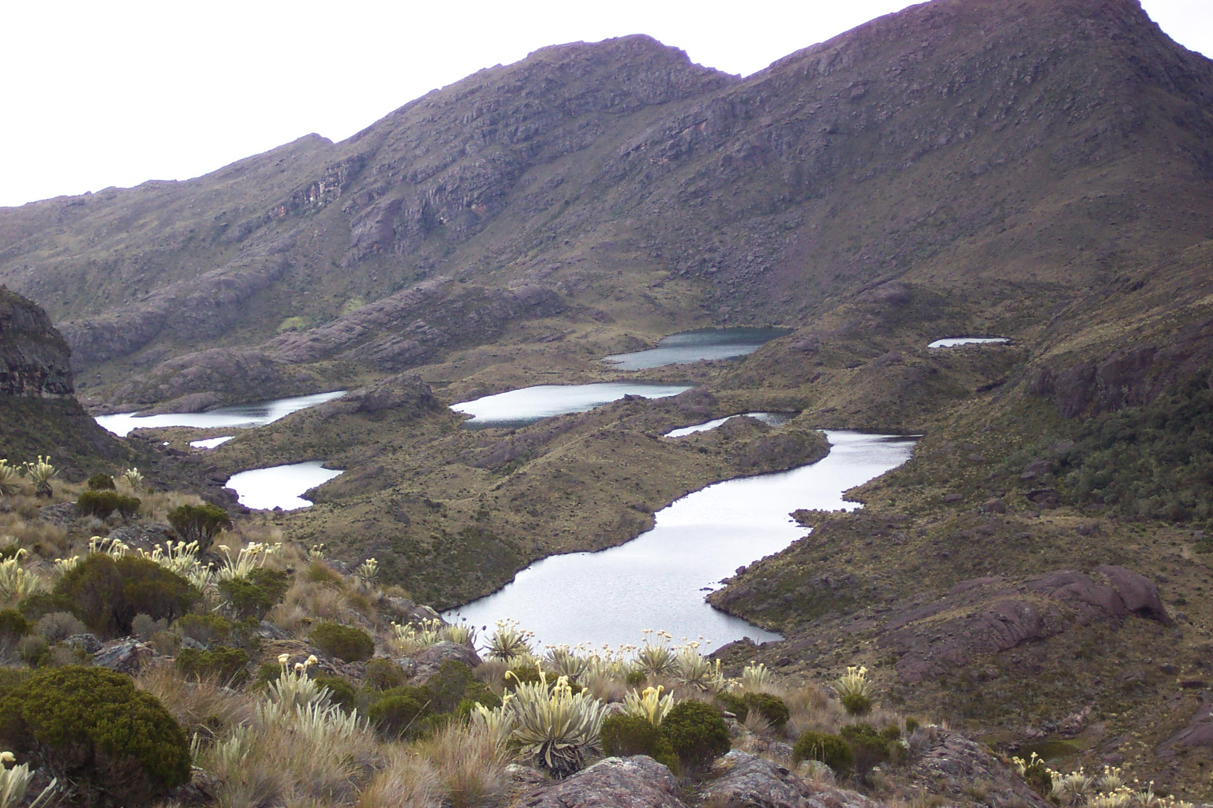 Siete Lagunas, Municipio de Cachira, Paramo de Santurbán